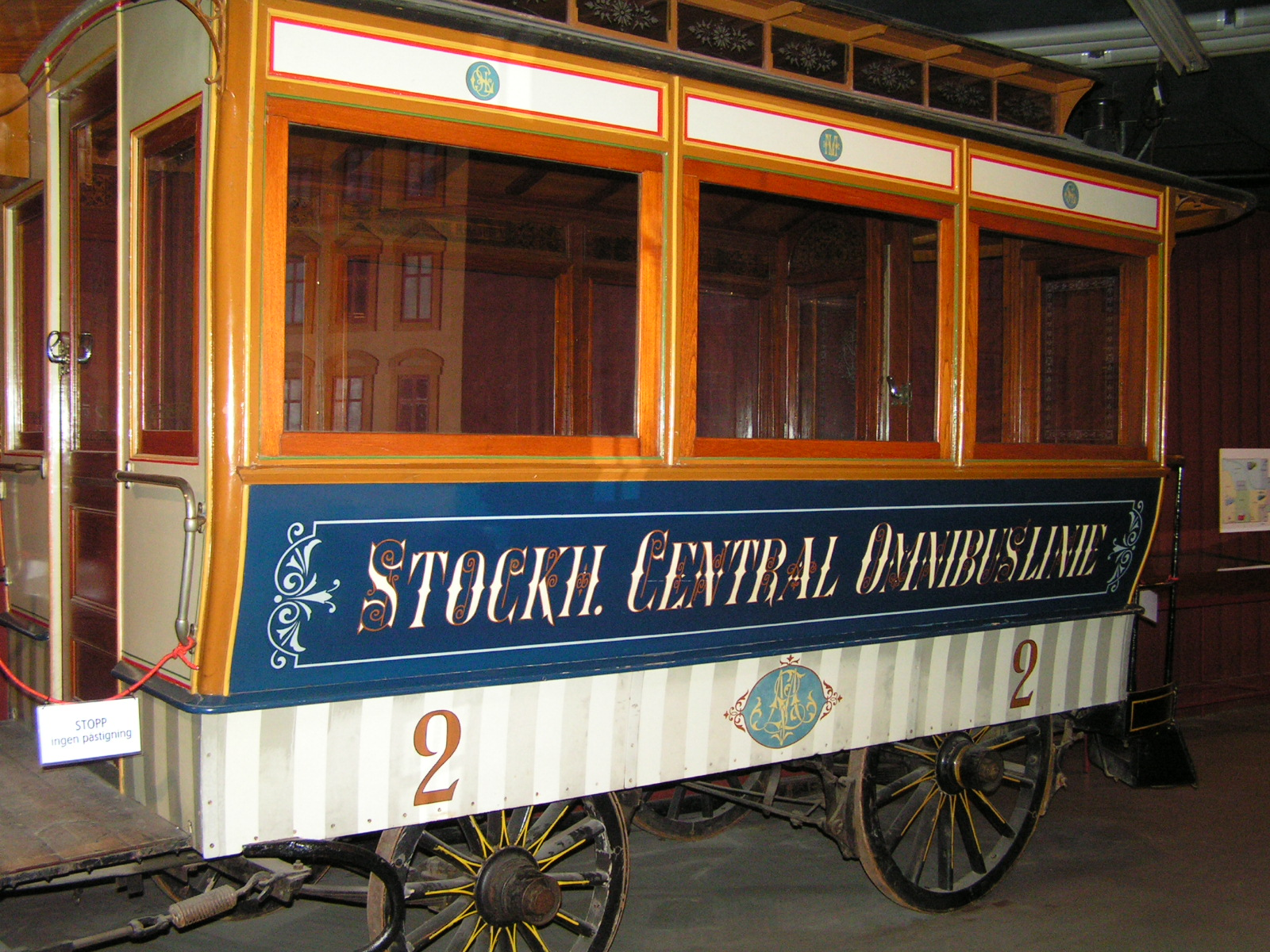 Omnibus in Stockholm tram museum. Source: Taken by myself, July 30, 2005